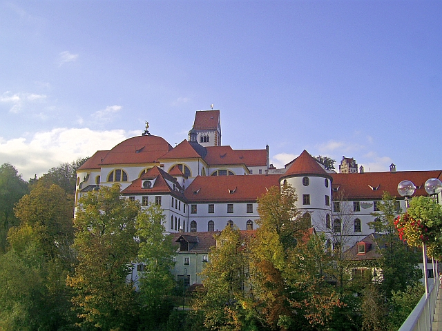 Sankt Mang Füssen This photo was taken by Myke Rosenthal-English and I give permission for it to be used